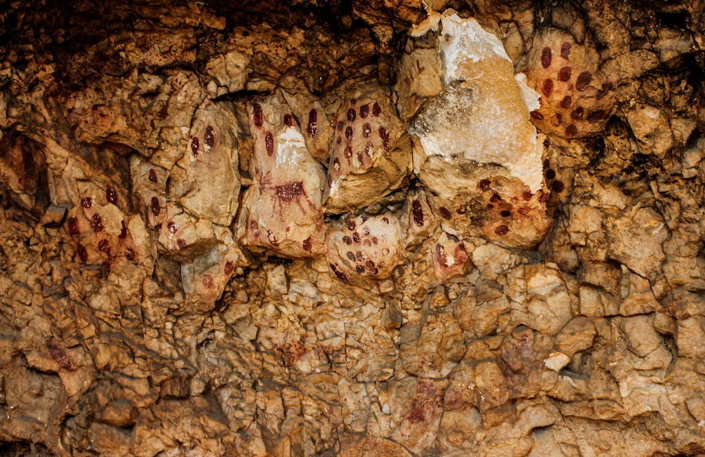 Forau del Cocho: covacho VI